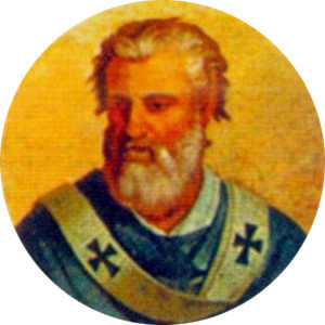 Portait of Pope Stephen VII in the Basilica of Saint Paul Outside the Walls, Rome